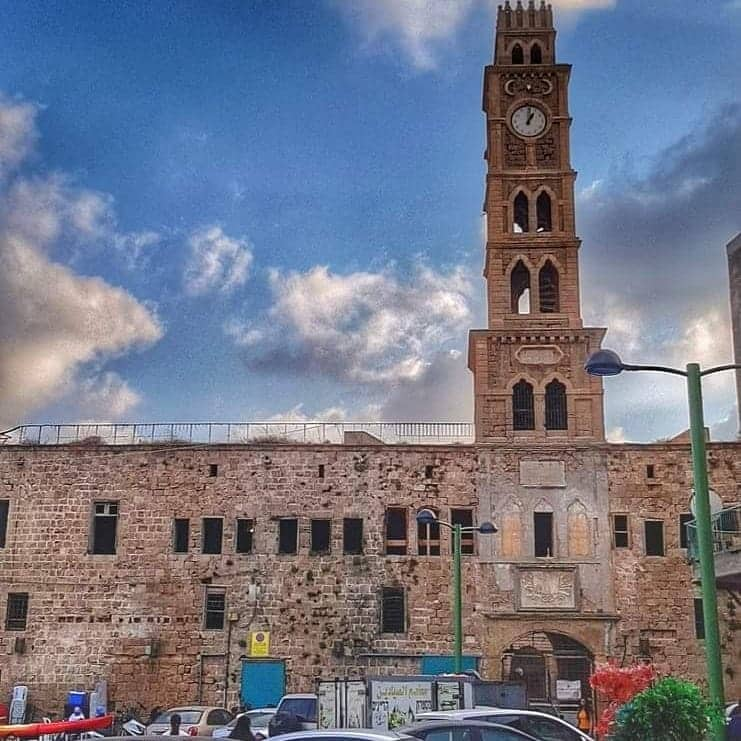 Clock Tower in Akka, palestine